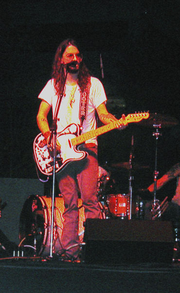 Country musician Shooter Jennings